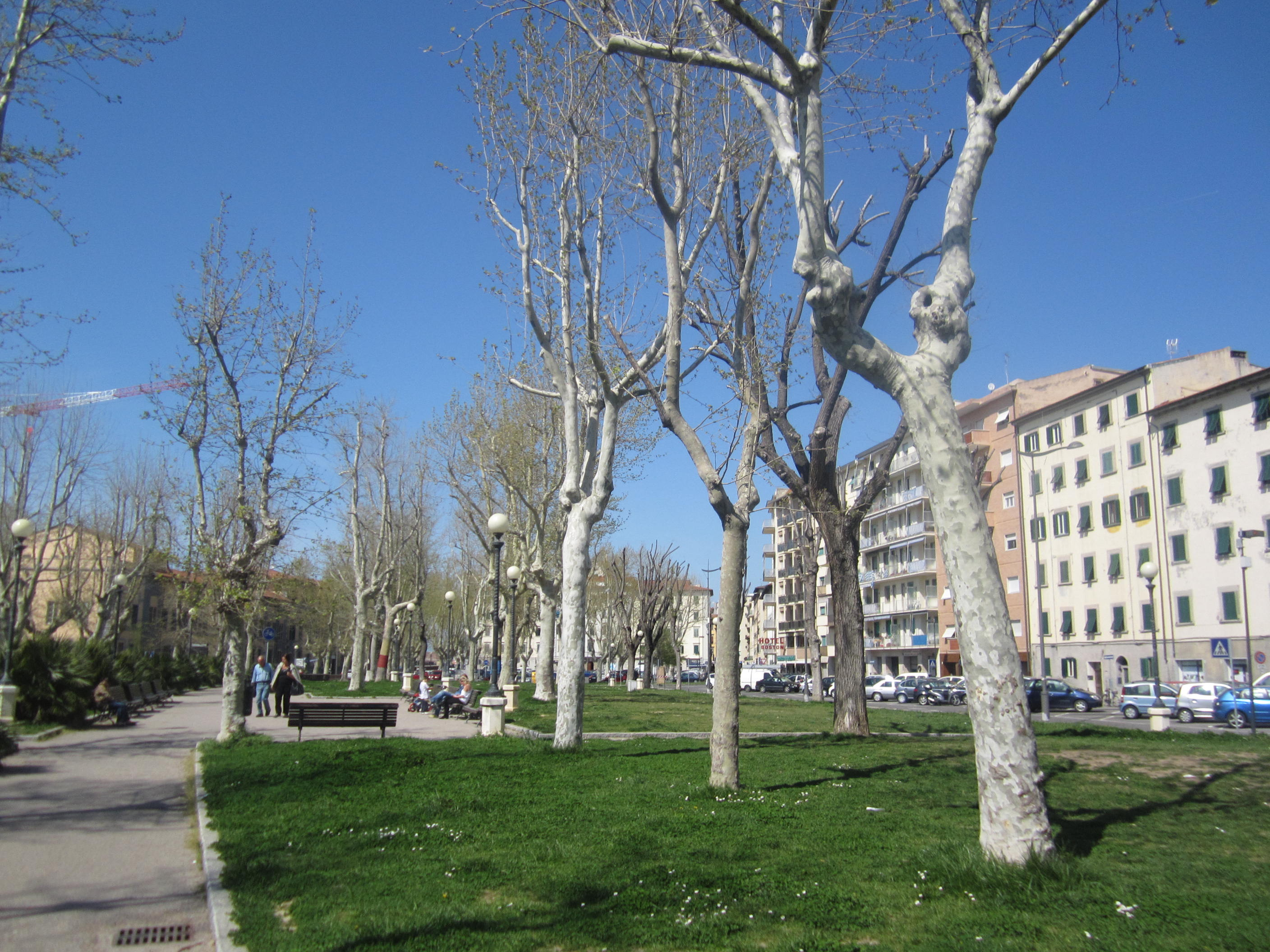 piazza mazzini